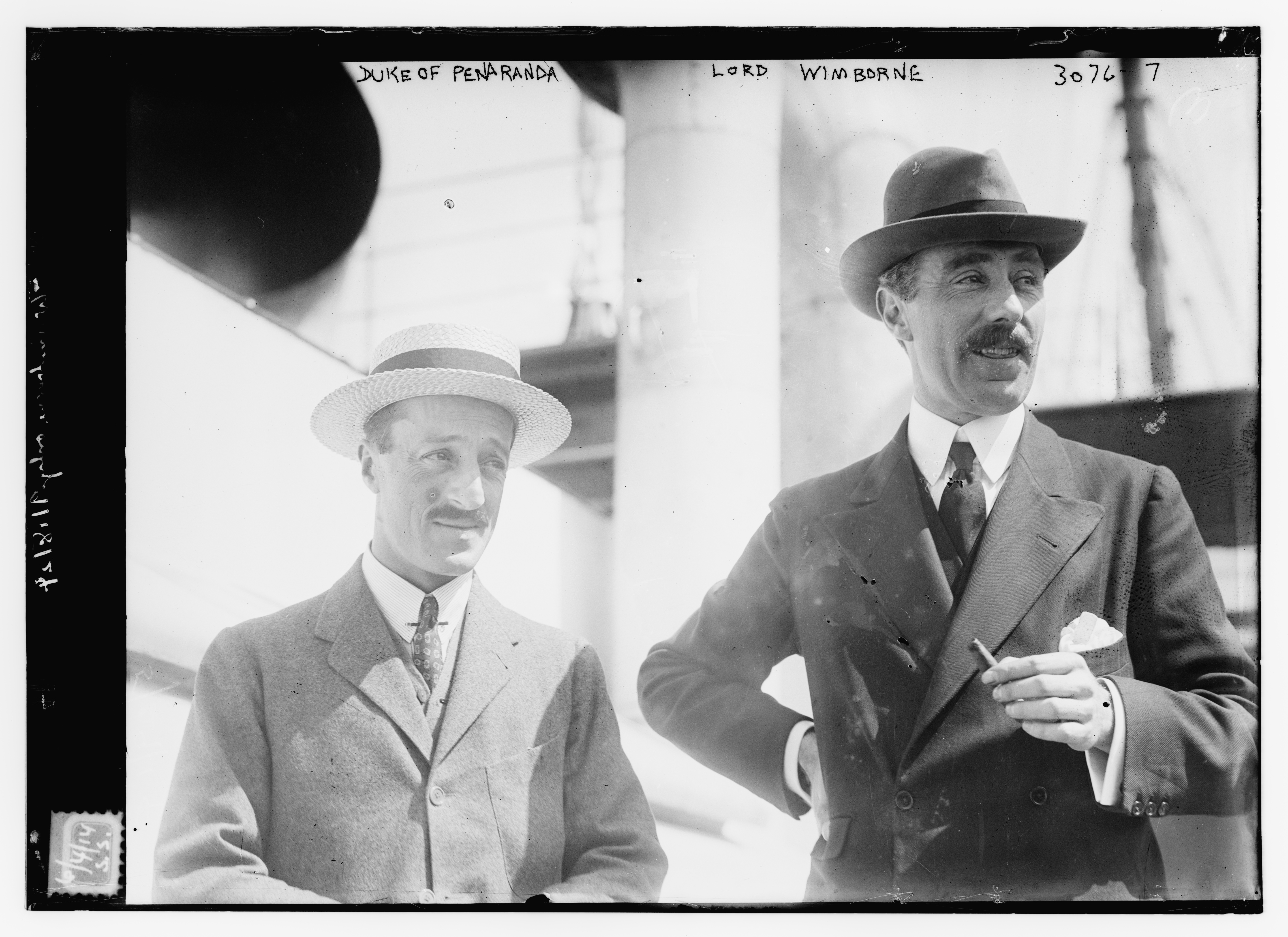 File:Wimborne 5496668395 4d06324734 o.jpg Hernando Fitz-James Stuart (1882-1936) and Ivor Churchill Guest (1873-1939) on June 4, 1914 in New York City. Duke of Penaranda, Lord Wimborne (LOC) Bain News Service,, publisher. Duke of Penaranda, Lord Wimborne [between ca. 1910 and ca. 1915] 1 negative : glass ; 5 x 7 in. or smaller. Notes: Title from unverified data provided by the Bain News Service on the negatives or caption cards. Forms part of: George Grantham Bain Collection (Library of Congress). Format: Glass negatives. Repository: Library of Congress, Prints and Photographs Division, Washington, D.C. 20540 USA, General information about the Bain Collection is available at Persistent URL: Call Number: LC-B2- 3076-7